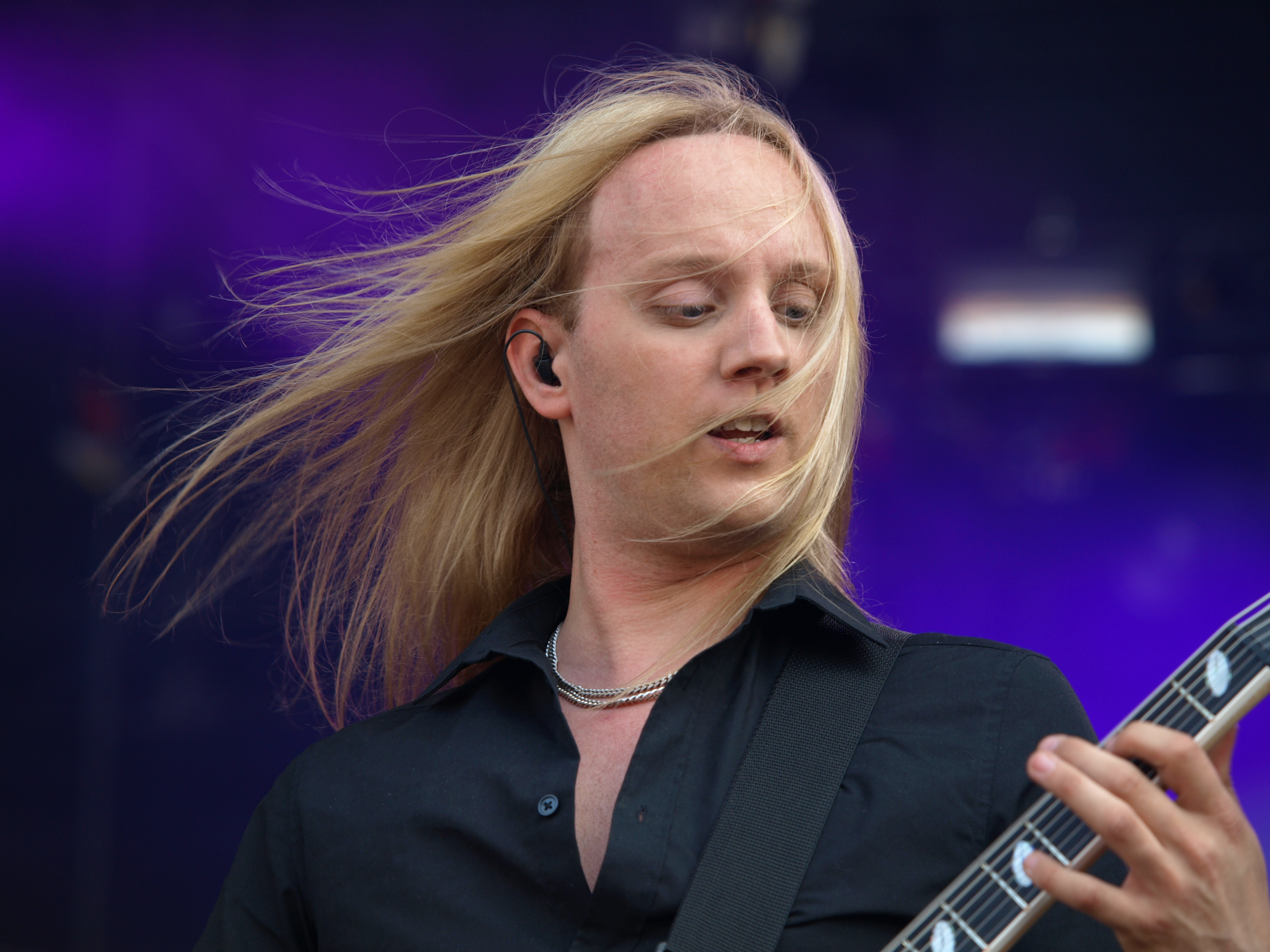 Swedish band Amaranthe at Tuska Open Air 2013